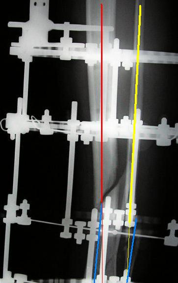 My picture of my own leg.